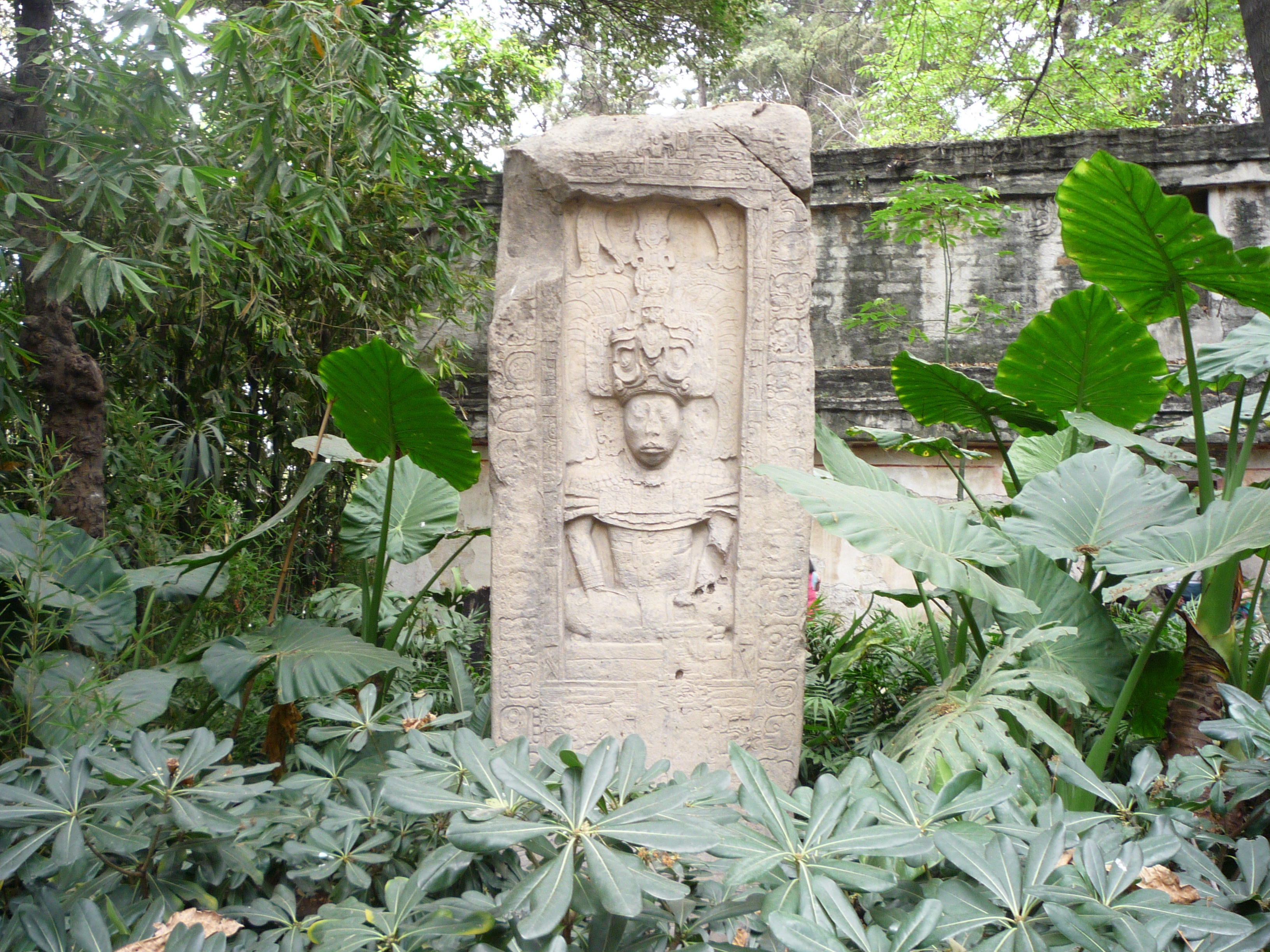 Maya Room. National Museum of Anthropology (Mexico)